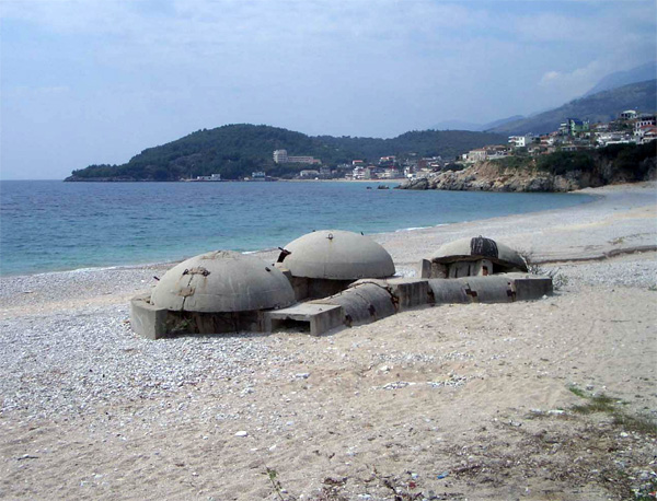 A "triple series" of linked Qendra Zjarri bunkers on an Albanian beach